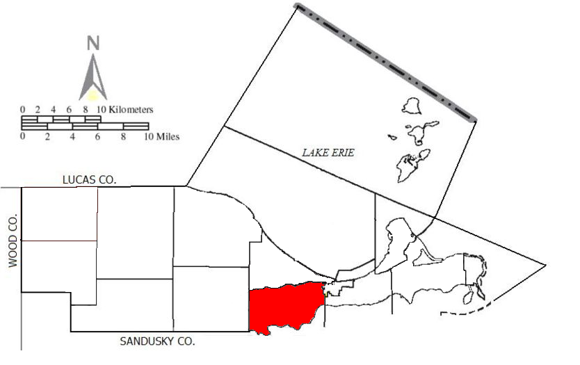 Made by the US Census and modified by me